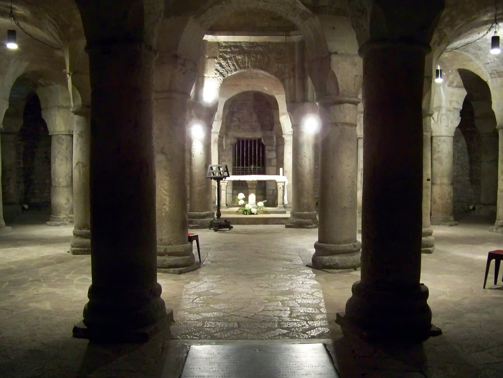 Crypt (rotonde) of Dijon Cathedral. XIth century.